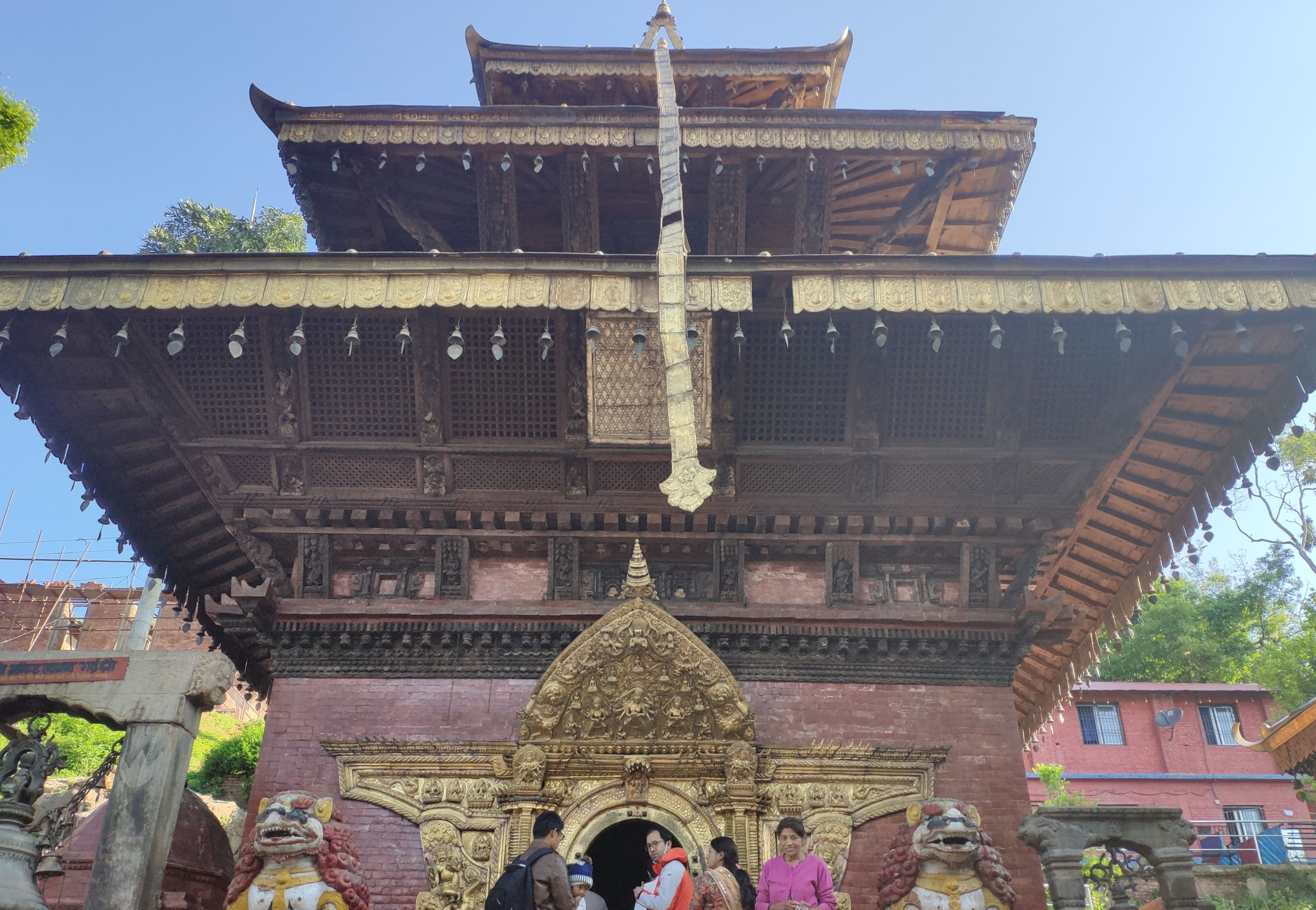 People worshipping at the Bajrayogini Temple.